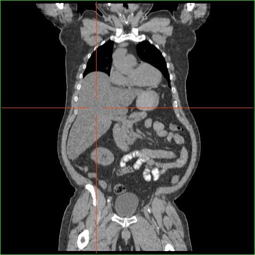 Image of severe hepatomegaly via a CT scan. Enlarged liver can be seen in red crosshairs extending down left side of the abdomen.